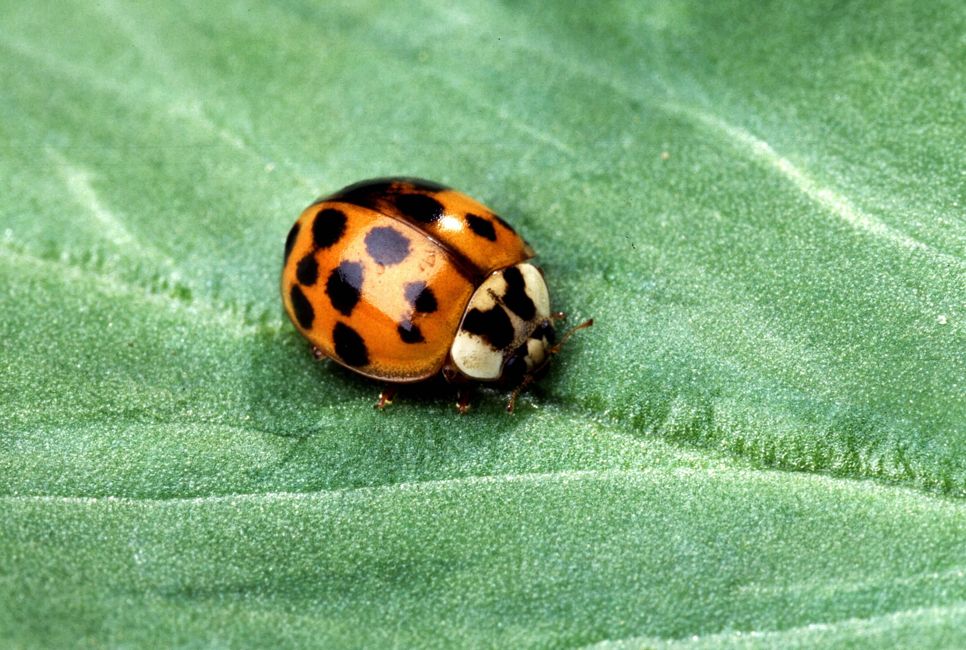 The Asian multicolored lady beetle (Harmonia axyridis), is easy to identify from its false "eyes"—twin white football-shaped markings behind the head. In color, the insects range from black to mustard, with zero to many spots. A common U.S. form is mustard to red and has 16 or more black spots.